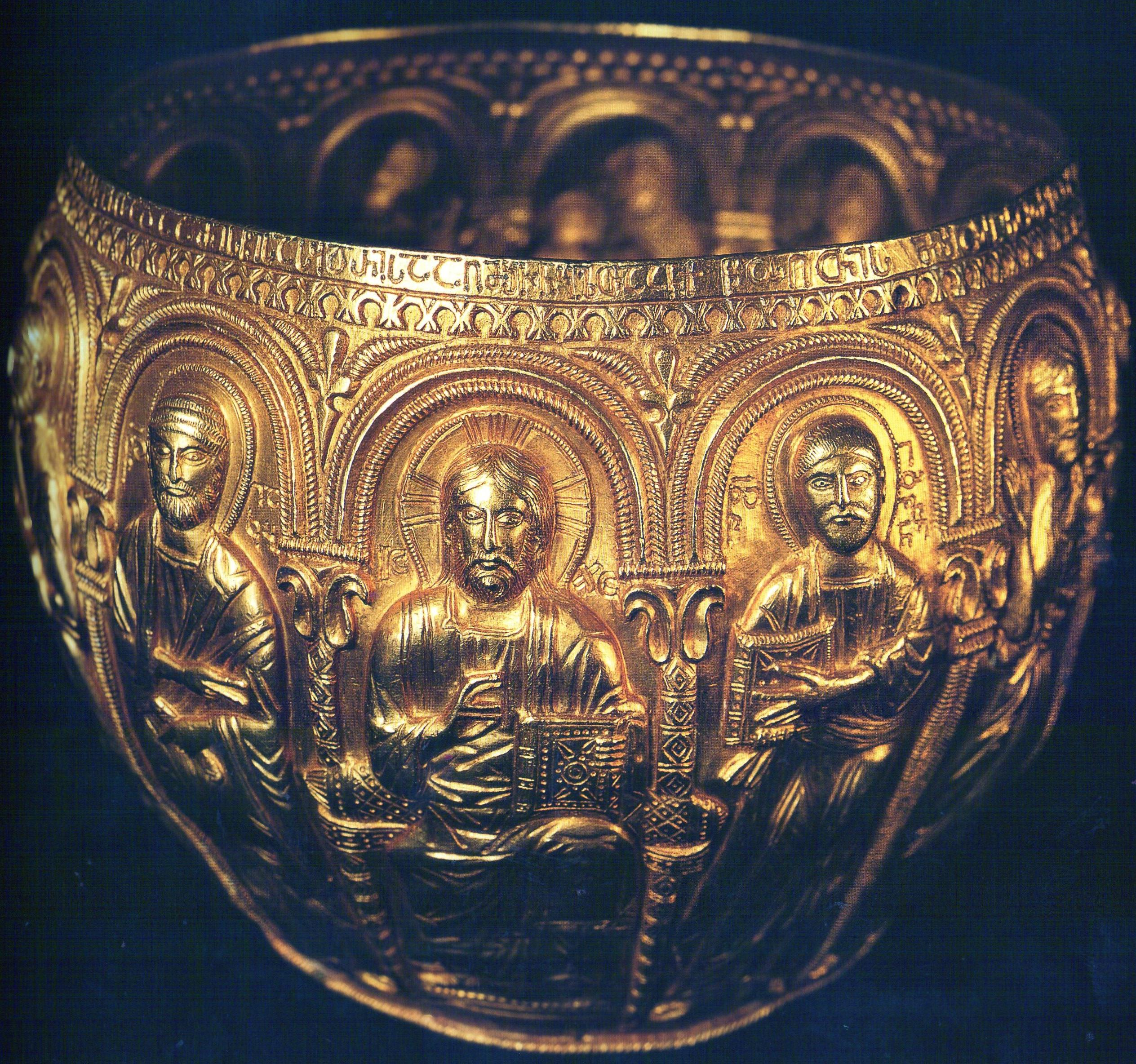 Bedia Cup (upper part of a chalice, 999 AD, Georgia